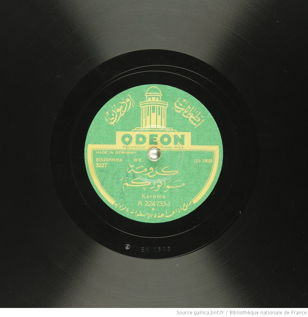 Historical record label of Sudanese song by Abdel Karim Karouma